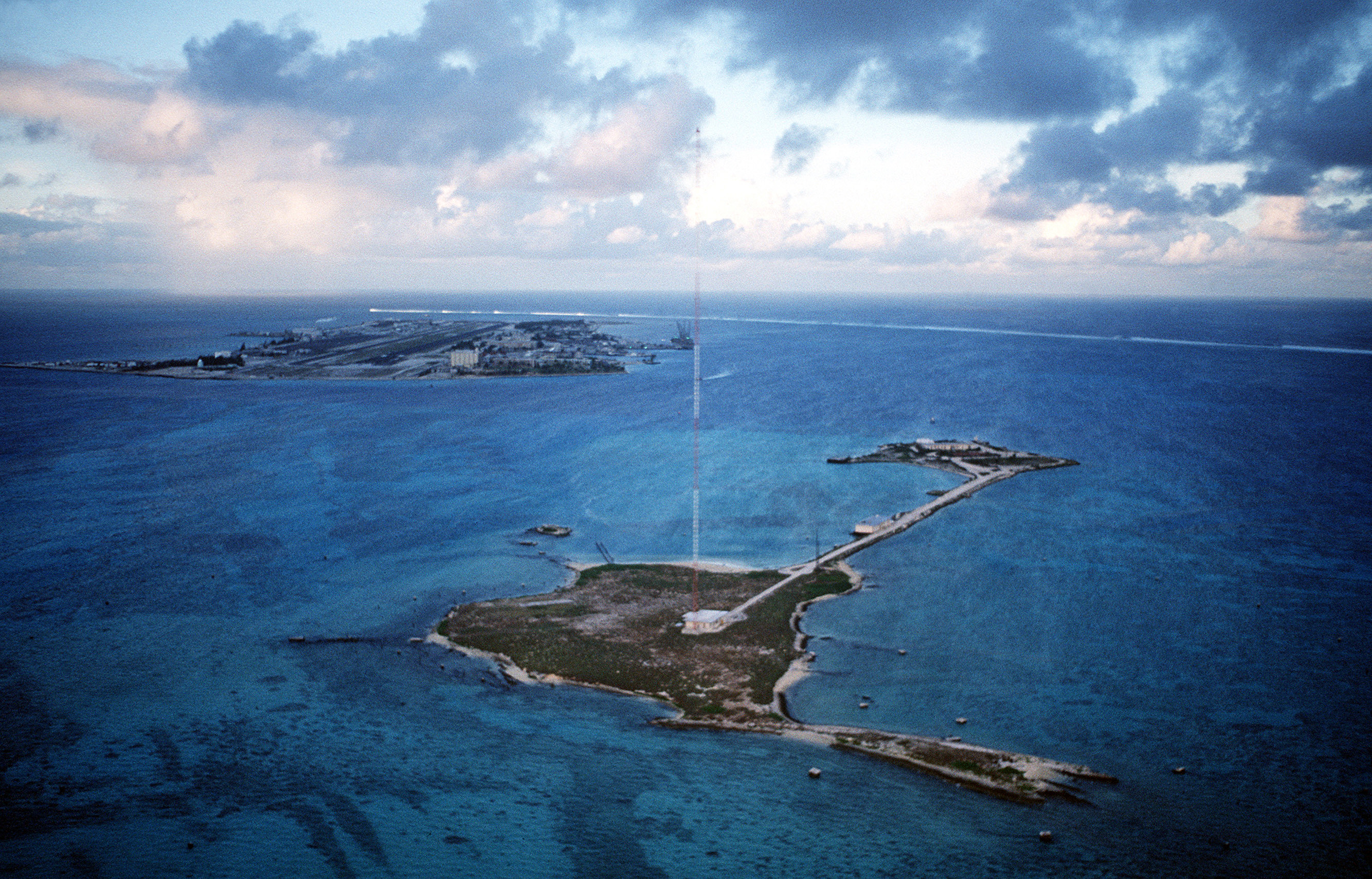 An aerial view of Johnston Atoll.